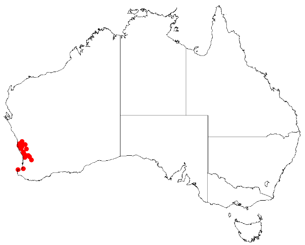 Desmocladus virgatus Occurrence data downloaded from Australasian Virtual Herbarium on 24 January 2019 using